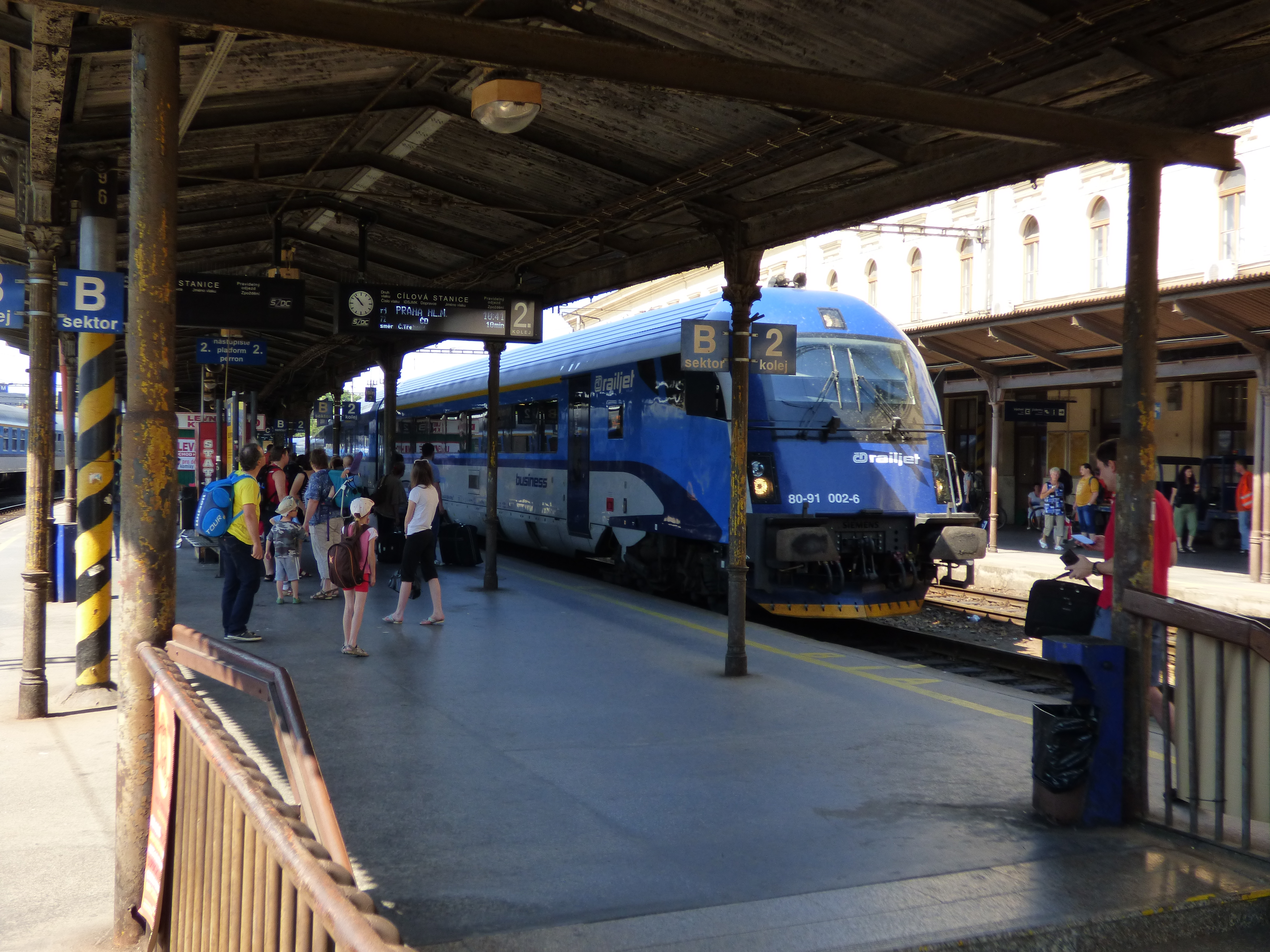 ČD Railjet at Brno Main Station